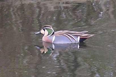 Anas formosa at Aqua Zoo in Leeuwarden (The Netherlands) Cropped so not very sharp.